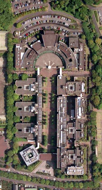 The Geographical Survey Institute took the aerial photograph in Shizuoka City, Shizuoka Prefecture on May 1, 2009.